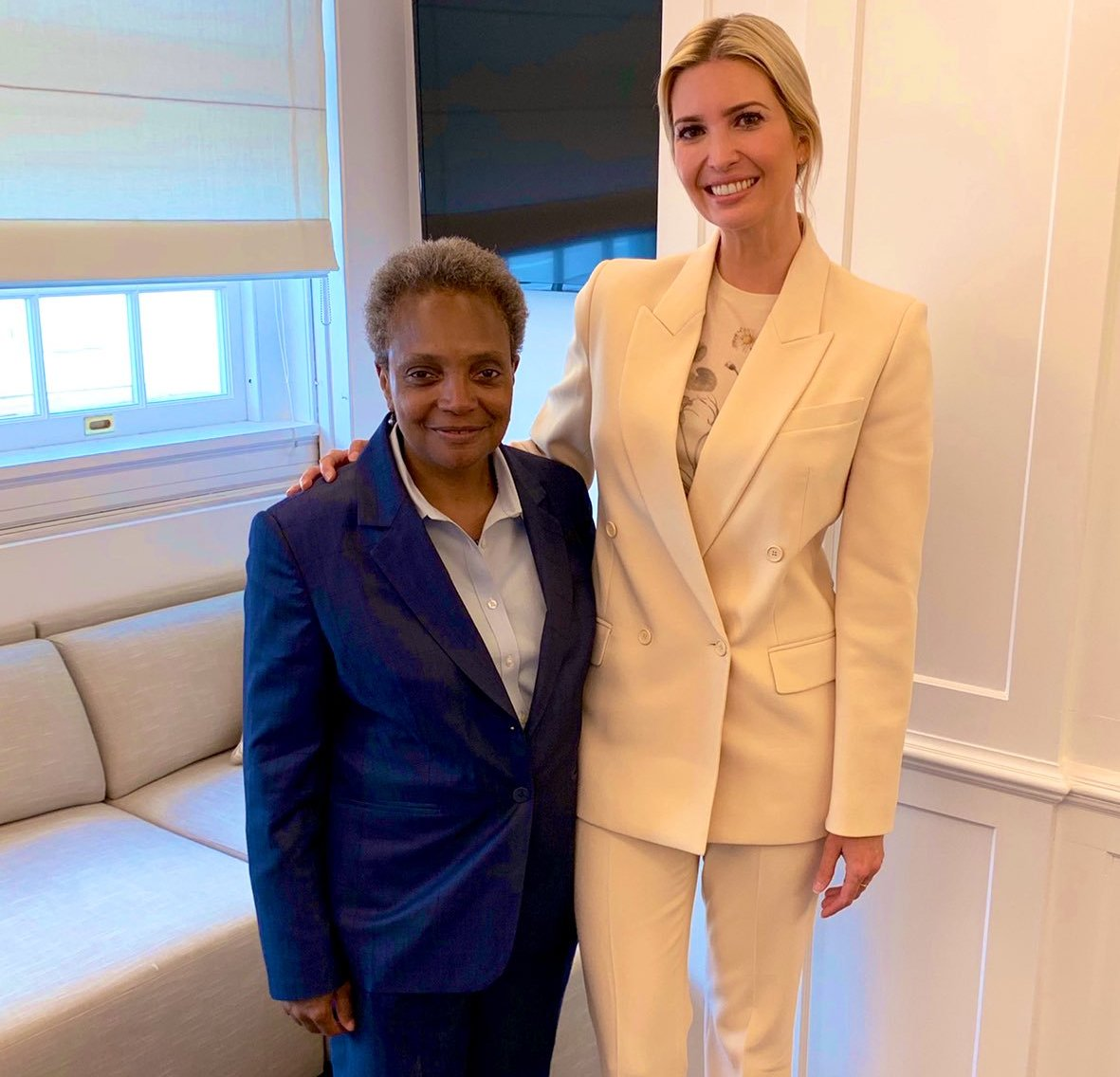 Lori Lightfoot and Ivanka Trump